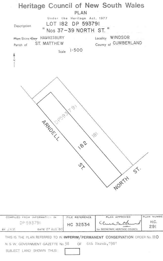 Court House Hotel, Windsor: PCO Plan Number 110